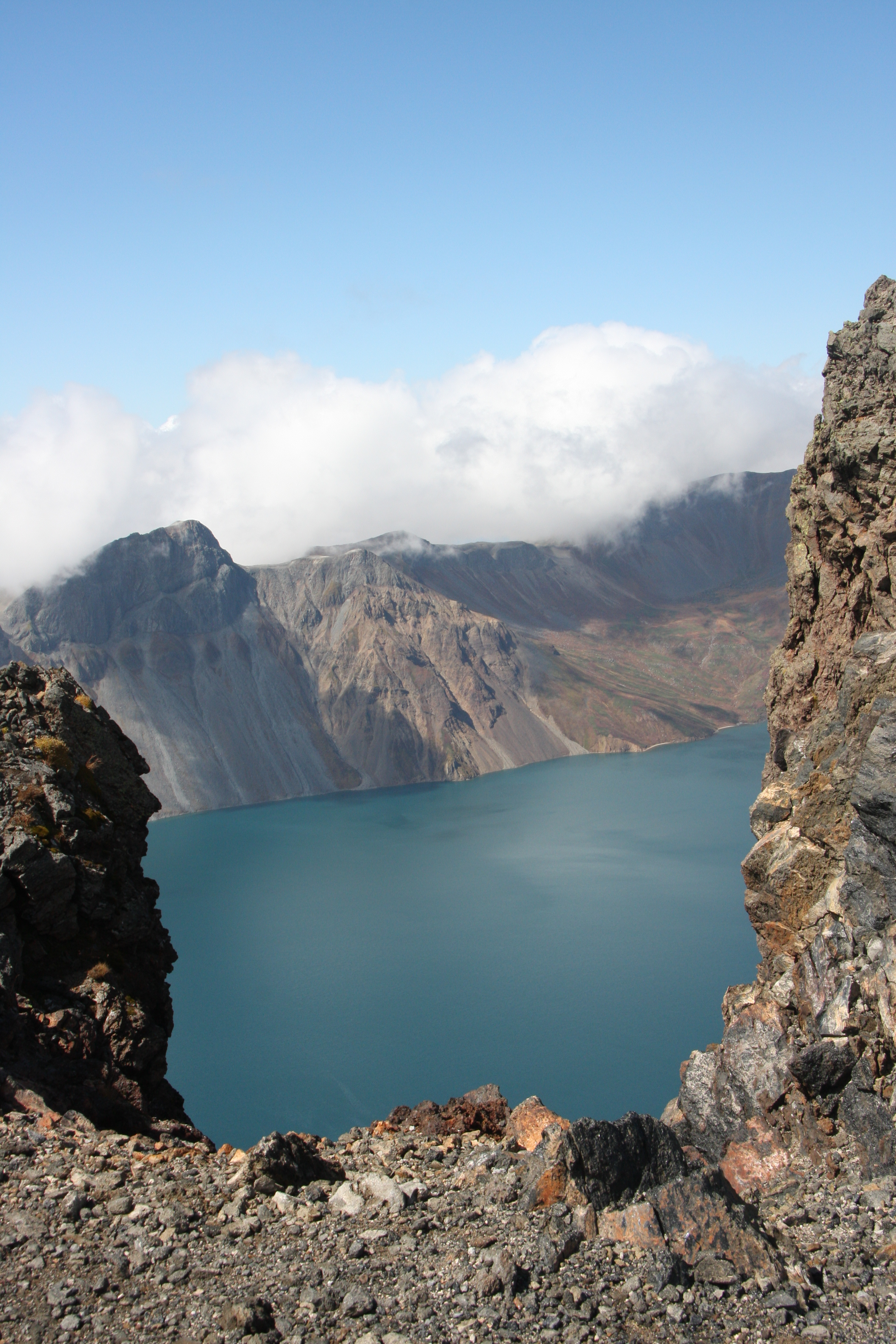 Mt. Paektu, DPRK